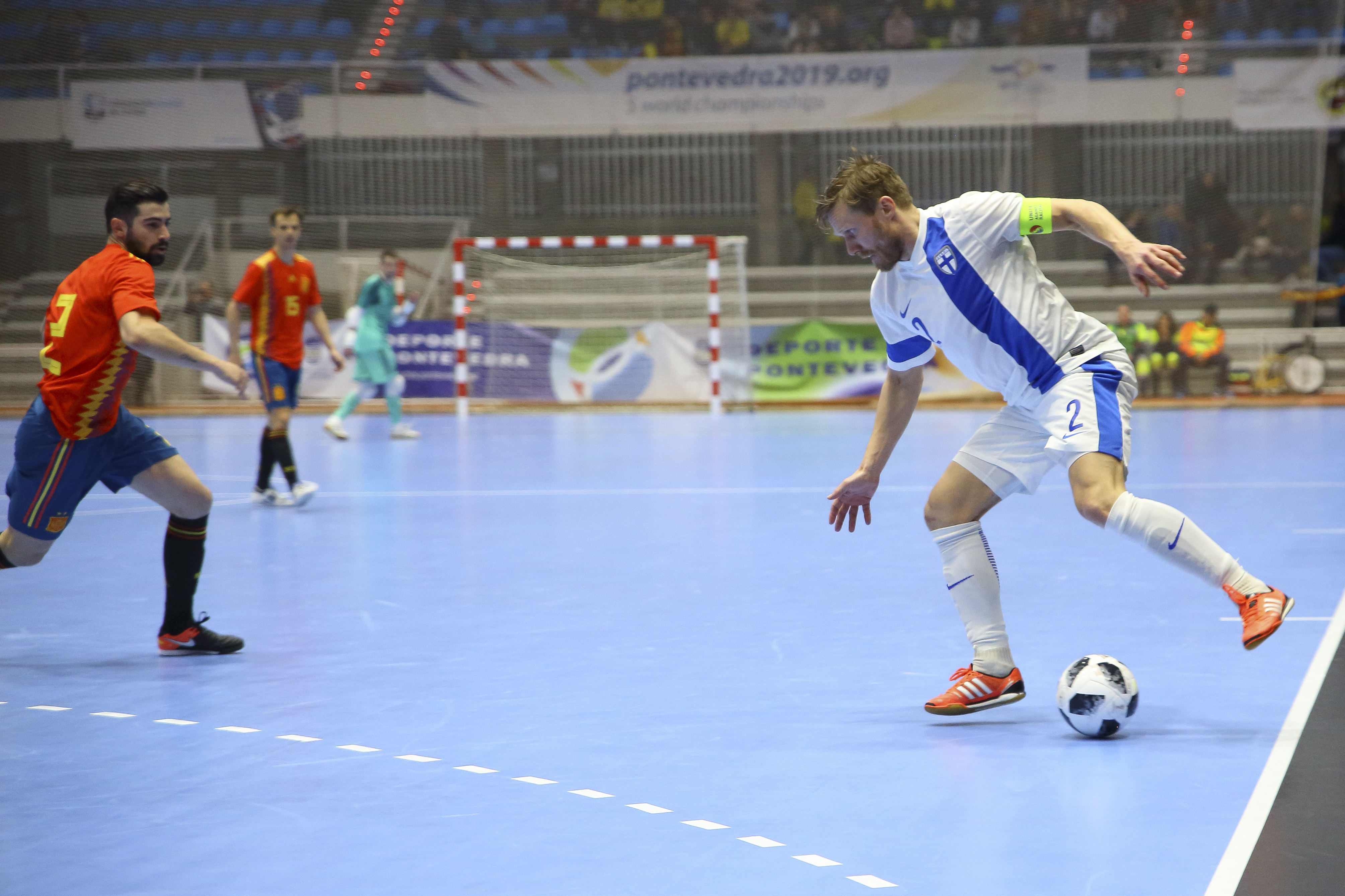 Futsal international friendly match between Spain and Finland at Pabellon Municipal de Pontevedra on April 2, 2018 in Pontevedra, Spain.